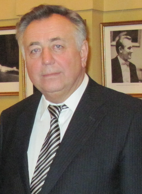 Valery Tsybukh 09.03.1951